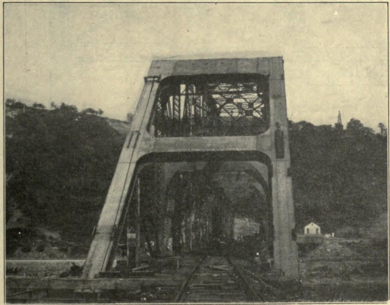 Clairton Bridge: End View of Channel Span, Showing Massive Construction